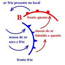 Sistema frontal- Frontal system